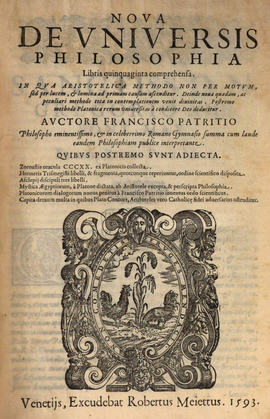 Title page of Patrizi’s "Nova de universis philosophia", second edition, printed at Venice, allegedly in 1593, but in fact after the ecclesiastical prohibition of 1594.